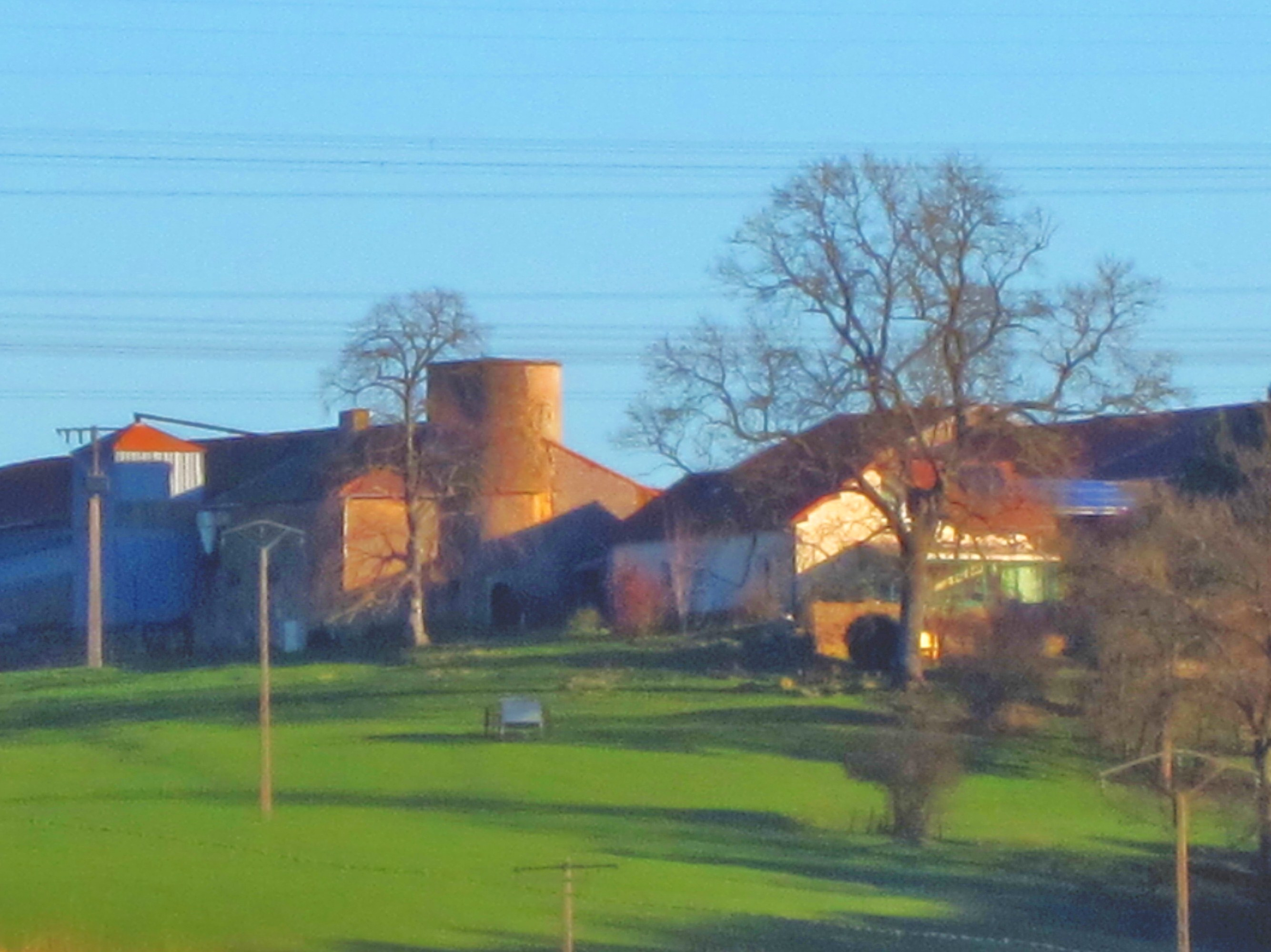 Baroches mussot castle